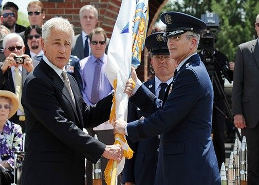 Gen. Paul J. Selva accepts the United States Transportation Command guidon from Chuck Hagel, Secretary of Defense, during the USTRANSCOM change of command ceremony May 5, 2014, Scott Air Force Base, Ill. Selva was previously assigned as the commander of Air Mobility Command and is the 11th commander of USTRANSCOM.